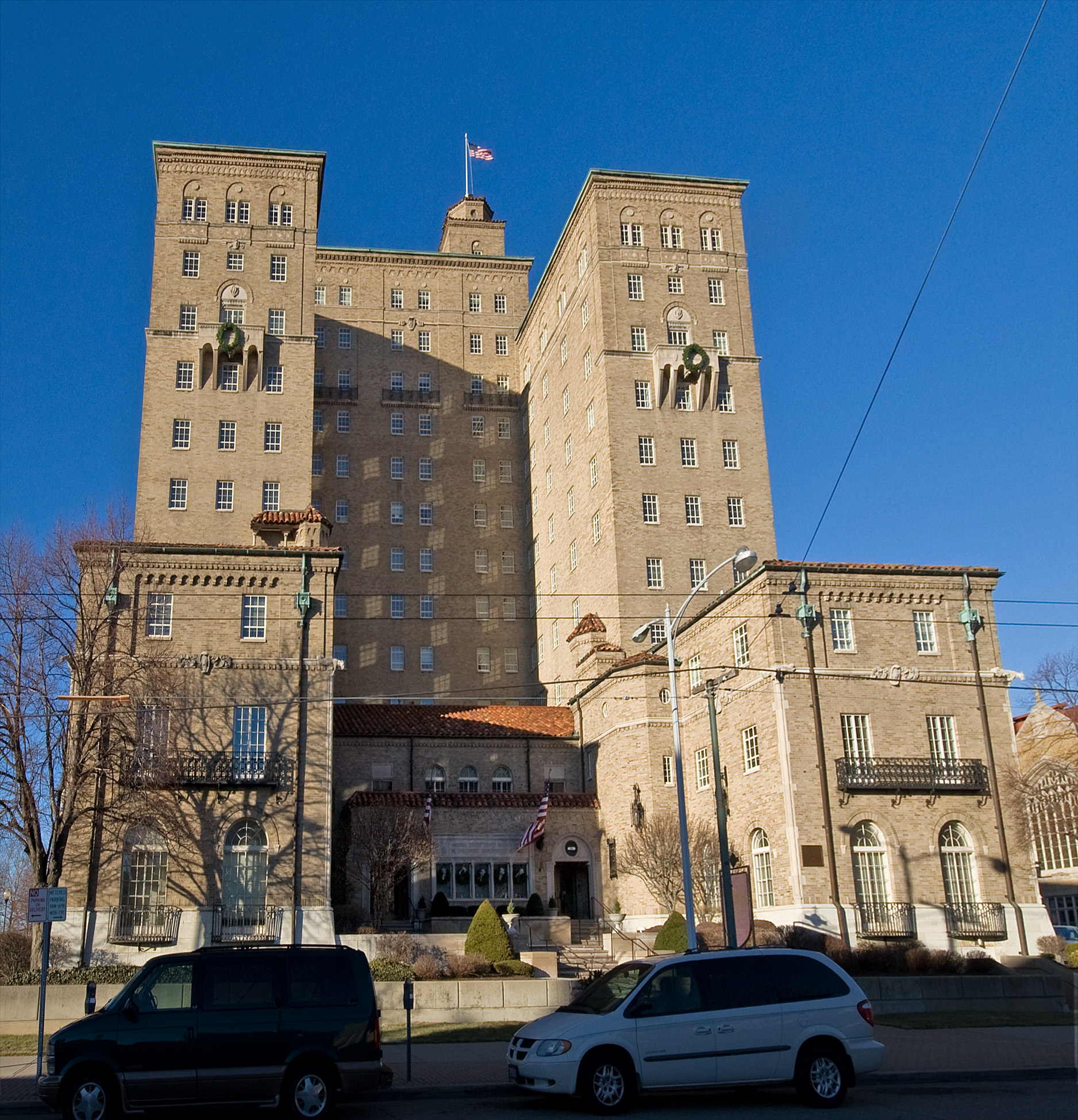 Dayton YMCA on Monument Street in Dayton, OH. Photo by Greg Hume